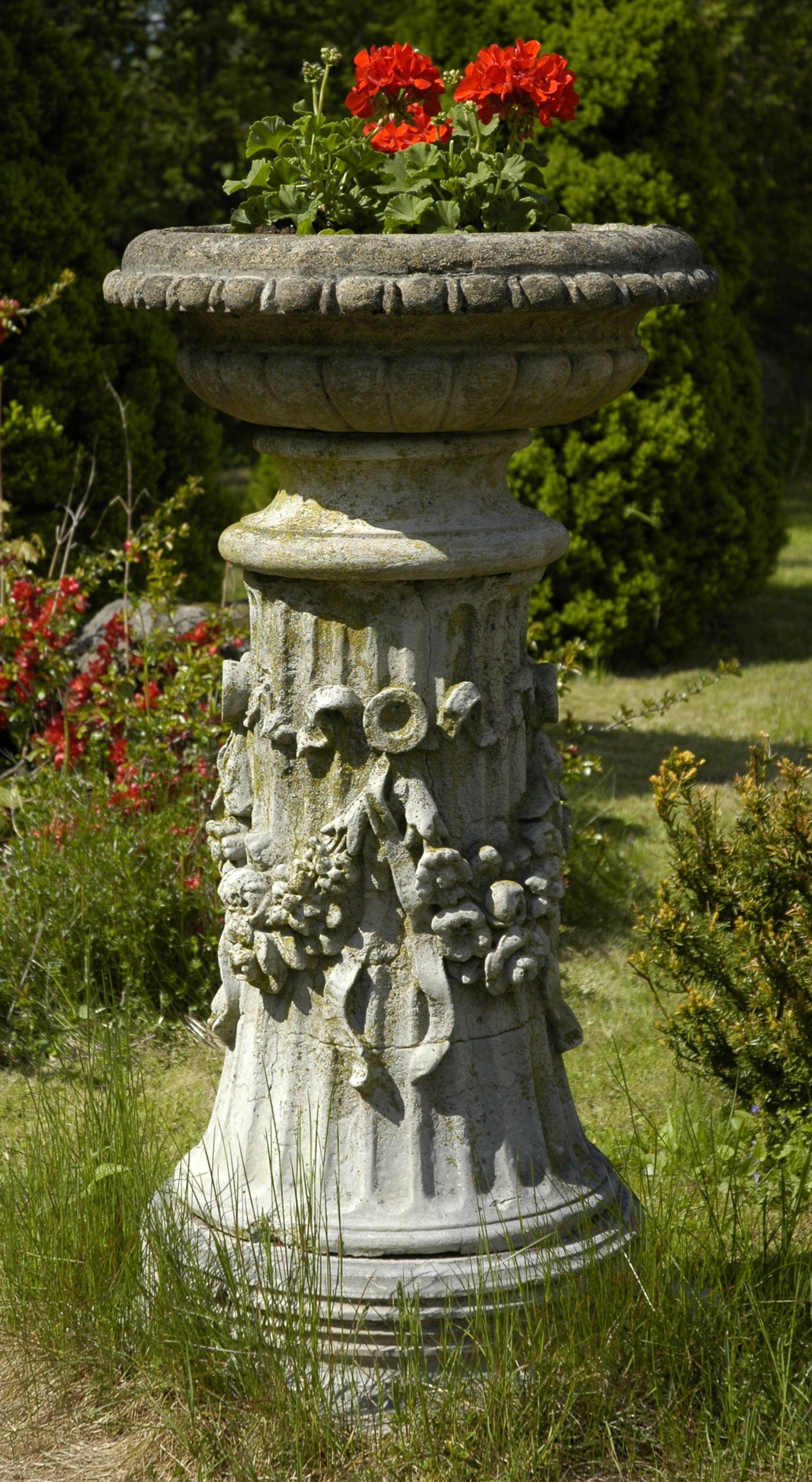 Garden vase and plant stand — made of cast concrete. Made at the Norwegian cement mill at Slemmestad.